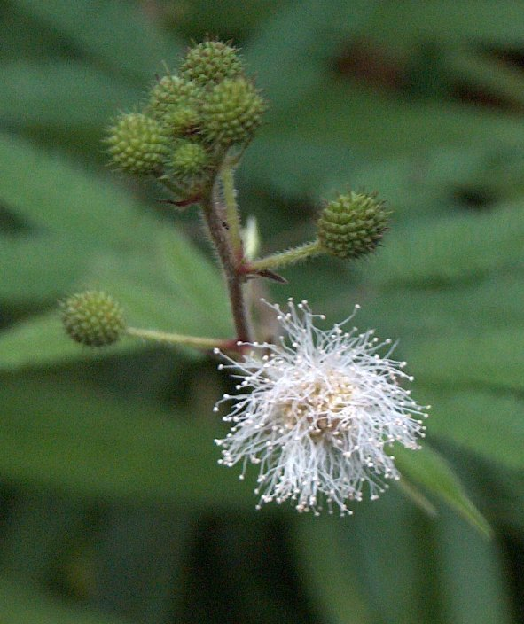 Flower of Mimosa spegazzini Pirotta